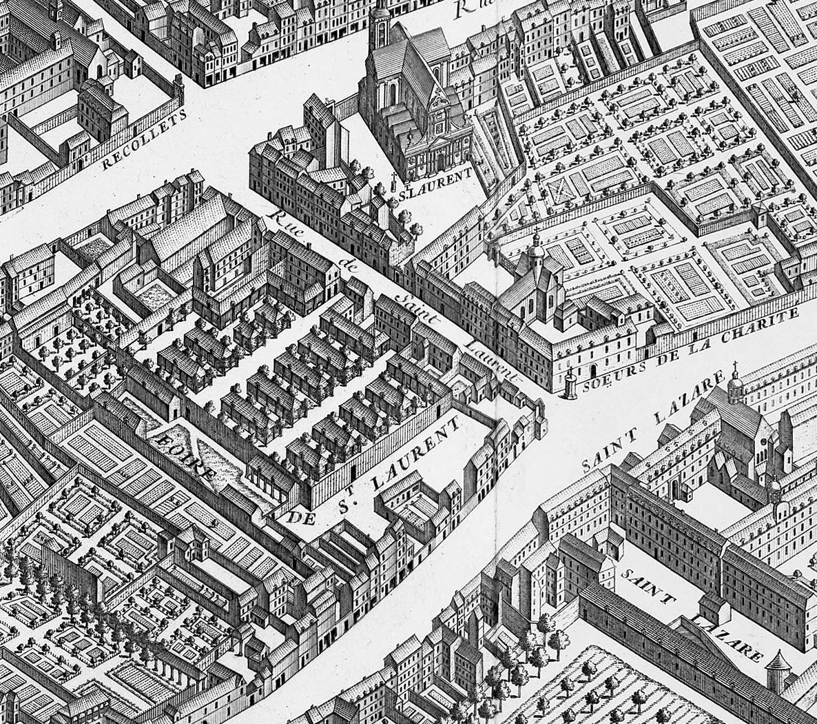 Detail from plate 13 of Turgot's 1739 map of Paris showing the Foire Saint-Laurent across from the Abbaye des frères de Saint-Lazare